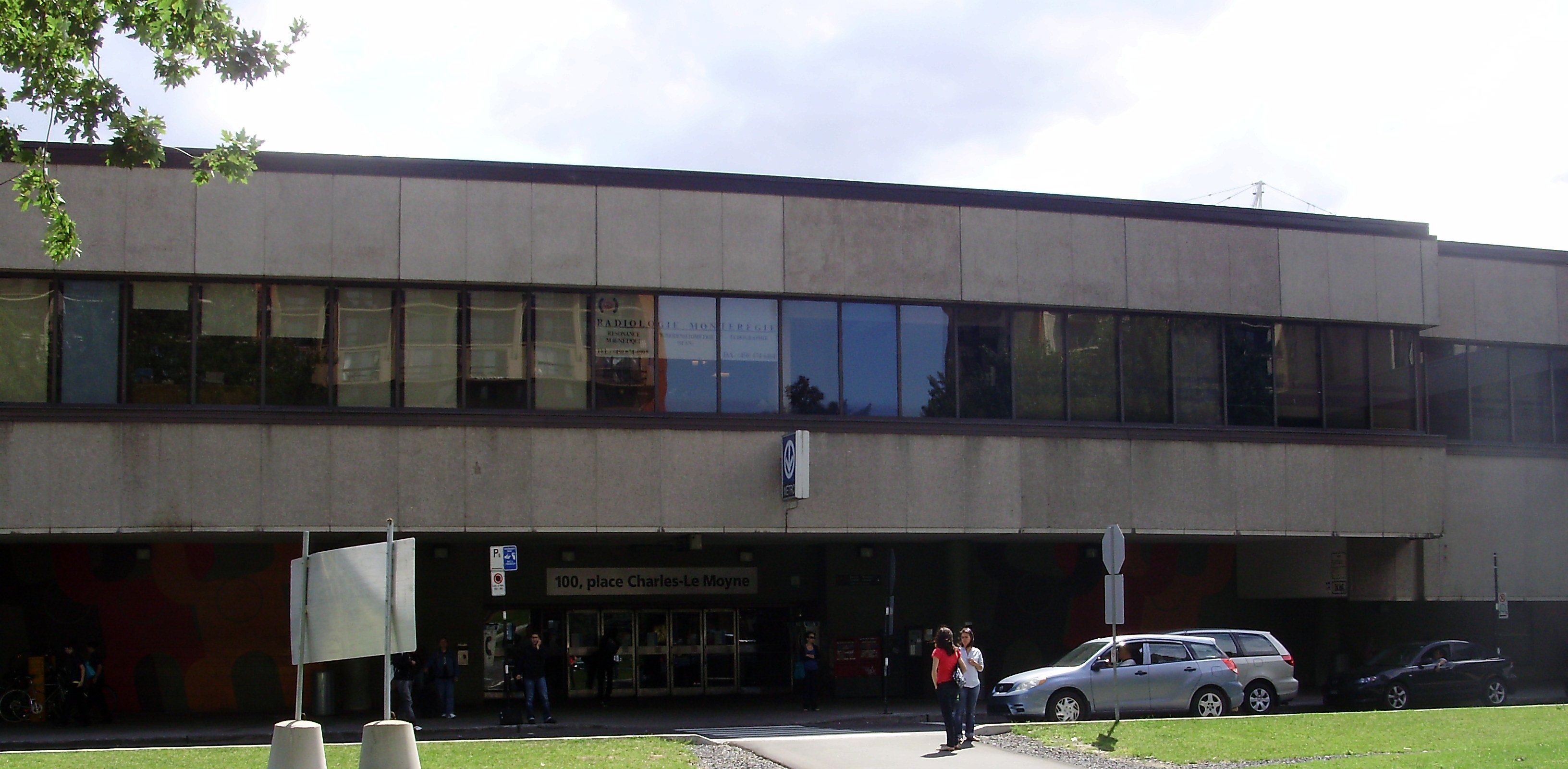 The exterior of Longueuil–Université-de-Sherbrooke station, a Montreal Metro station in Longueuil, Quebec, Canada.